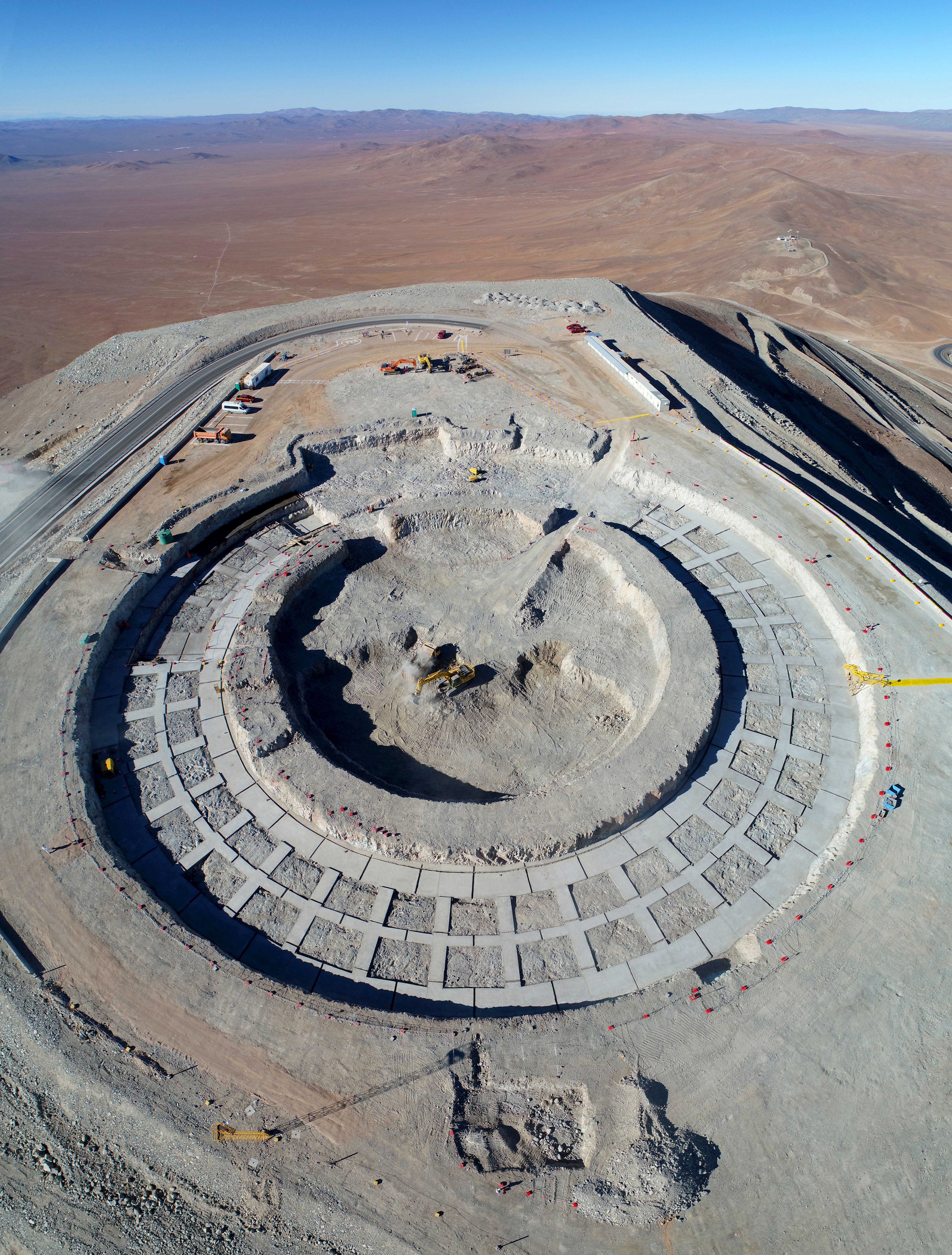 The era of extremely large telescopes is beginning — and it will revolutionise our understanding of the Universe. ESO’s Extremely Large Telescope (ELT) is currently under construction in the remote Chilean Atacama Desert; this groundbreaking telescope alone will collect more light than over 200 NASA/ESA Hubble Space Telescopes. As the name suggests, such telescopes are truly colossal. The largest primary mirrors — by which a telescope collects light — currently in operation at all of ESO’s sites are the 8.2-metre-diameter mirrors in the four Unit Telescopes comprising the Very Large Telescope (VLT). The ELT will dwarf the already impressive VLT with its vast mirror at 39 metres in diameter! However, constructing a single, science-quality mirror of such a size is simply not possible — the ELT’s primary mirror will, in fact, be a complex honeycomb arrangement of 798 tessellated hexagonal 1.4-metre mirrors. Finding a suitable place for such a structure was also no easy task. As well as requiring the dry and light-pollution-free conditions at a high altitude necessary for successful astronomy, the ELT needed a huge space on which to spread its foundations. As such a location was not available, it was created! The complex journey of the ELT’s construction began by flattening the top of the Cerro Armazones mountain in Chile, taking 18 metres off its full height. That site is now covered by a web of foundations — as seen in this image.